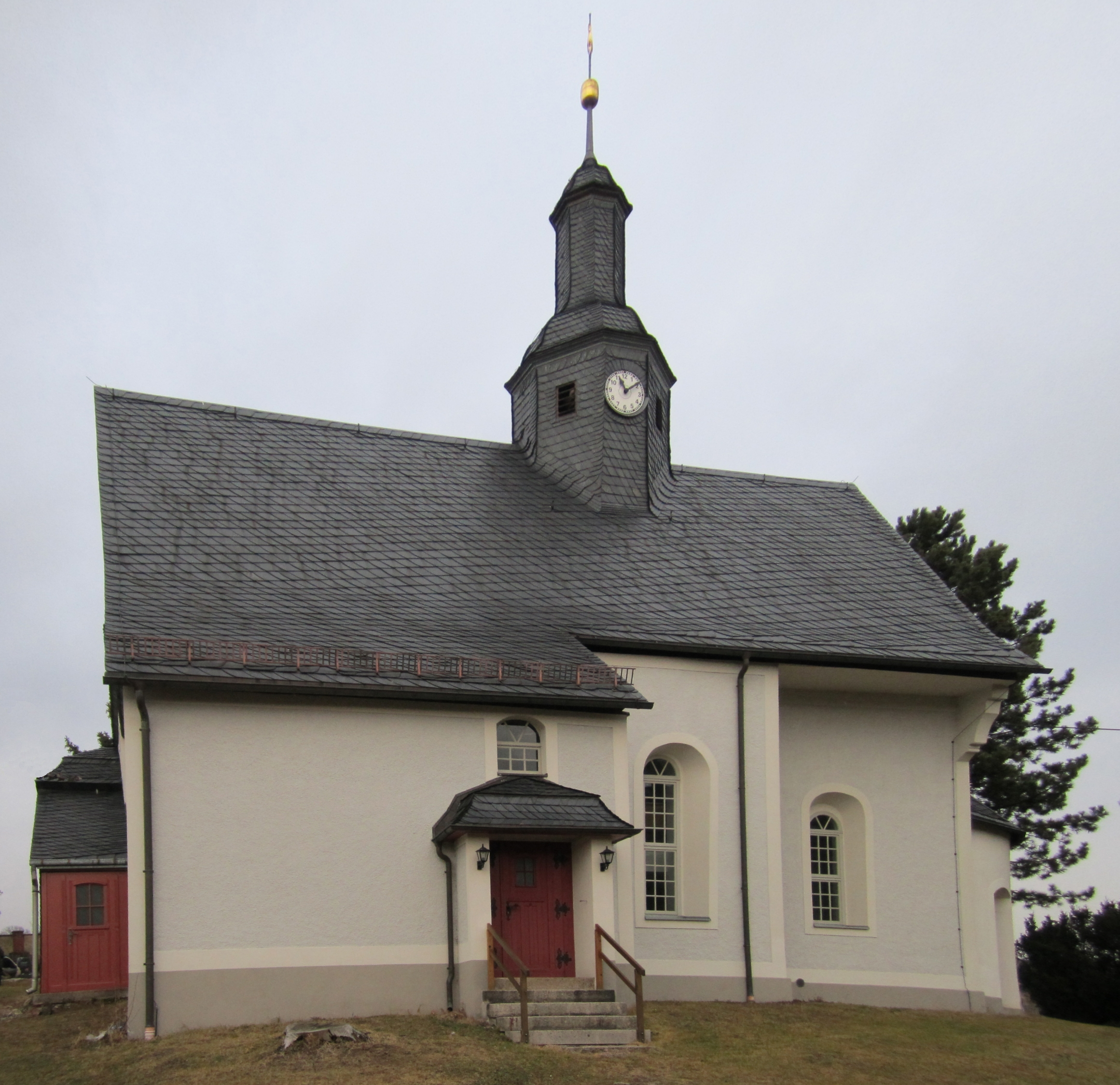 Church of Niedercrintz.